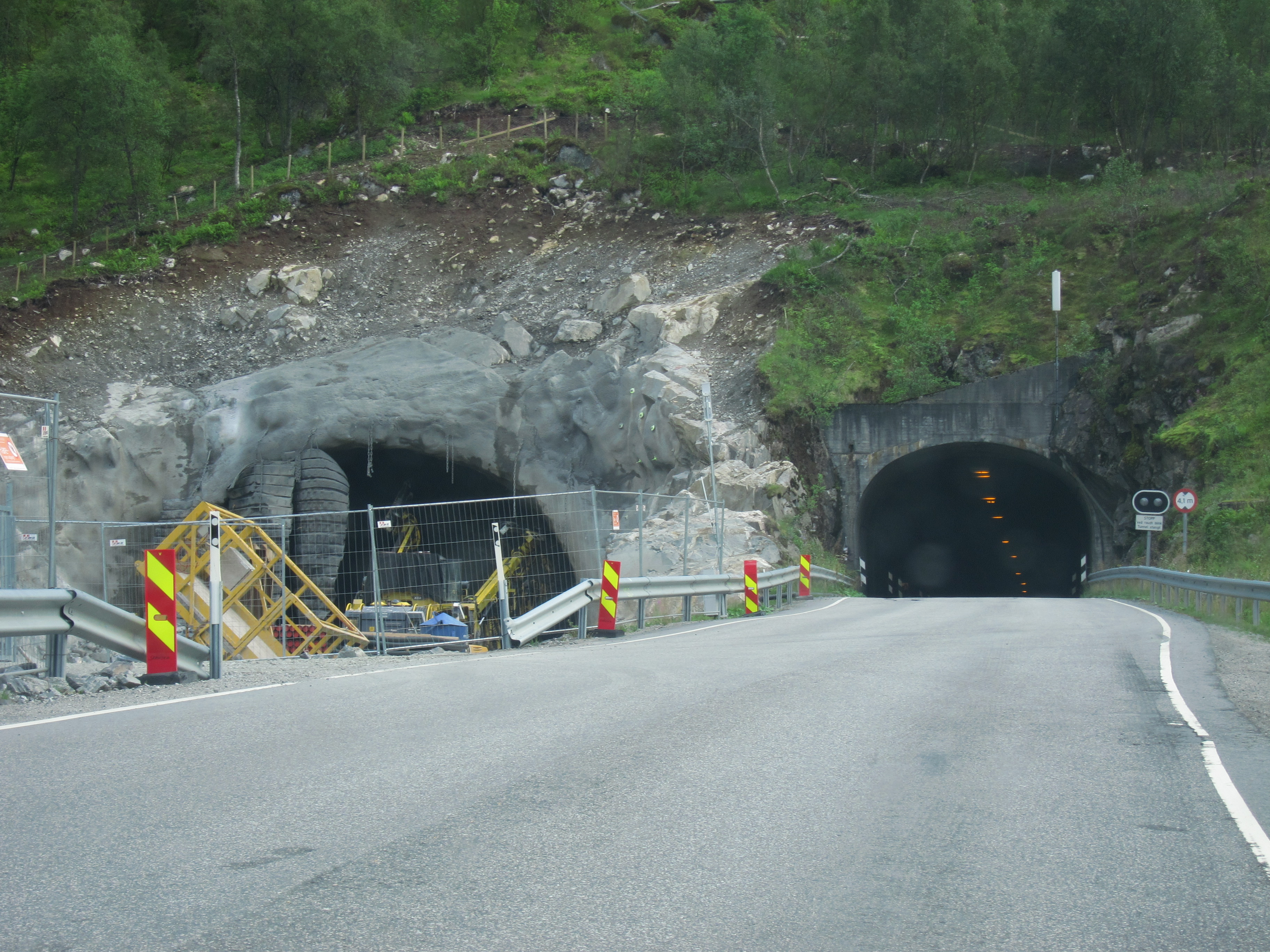 Construction of New Ljøtunnel, county road 60, Stranda municipality